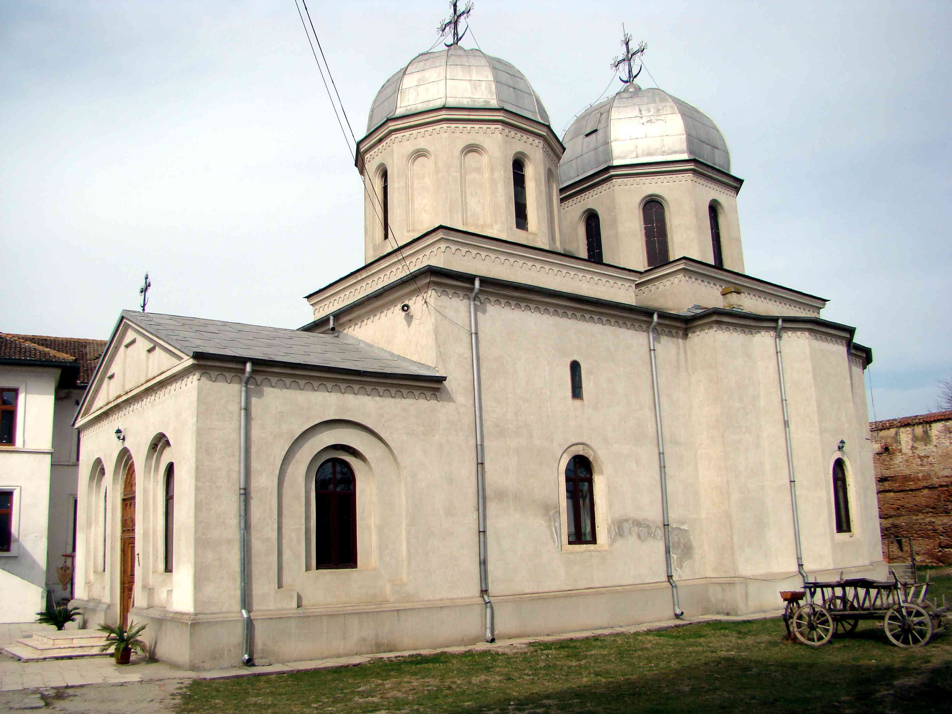 Curch of Comana Monastery